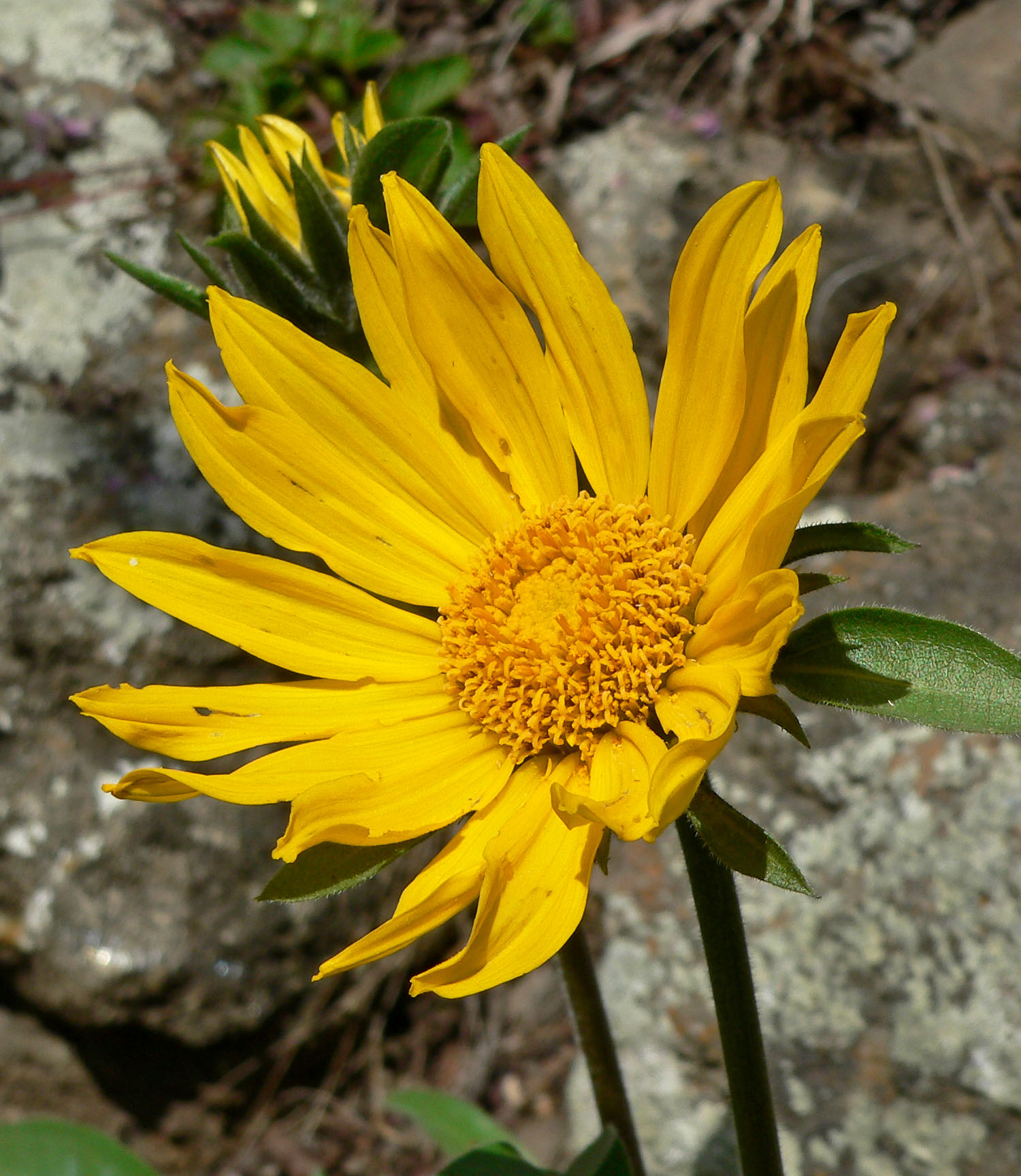 Photo of Helianthella castanea at the Regional Parks Botanic Garden, Berkeley, California